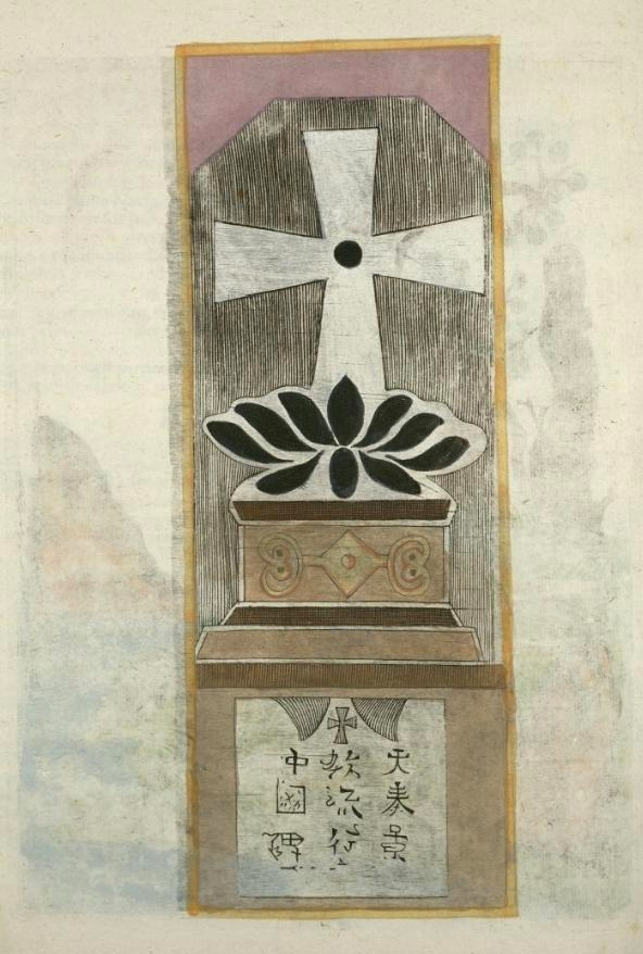 One of the earliest natural history books about China. Jesuit Missionary author. (obviously includes some non-Chinese {and non-floral} species)